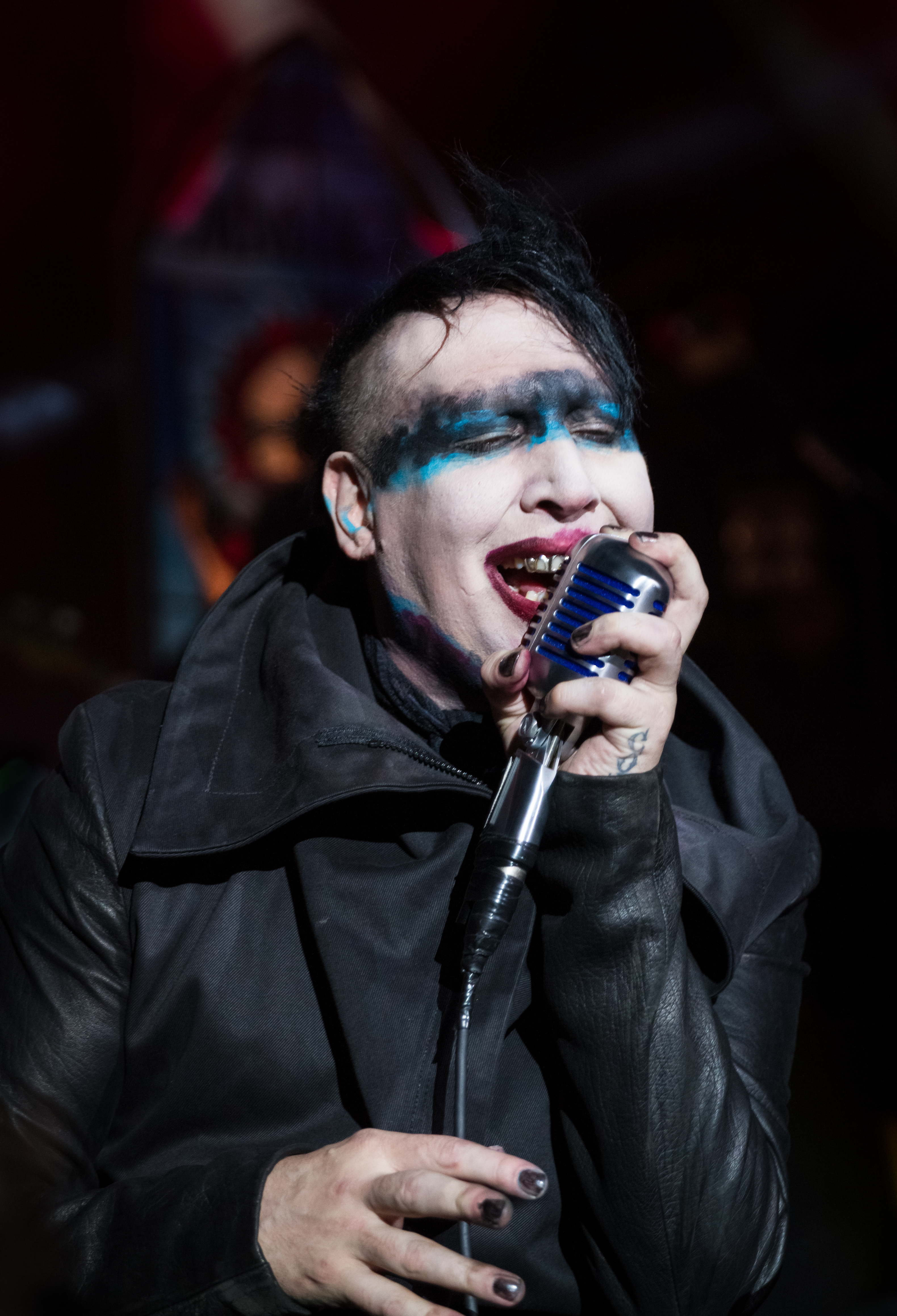 Marilyn Manson - Rock am Ring 2015